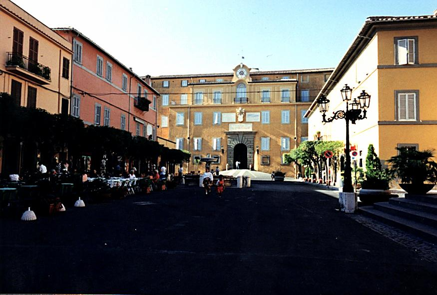 Pope's summer residence in Gandolfi, Italy意大利冈多菲堡教宗别墅